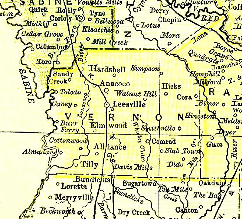 This is an 1895 map of Vernon Parish, Louisiana. The image may be found at this website, and is the result of the work of Pam Rietsch